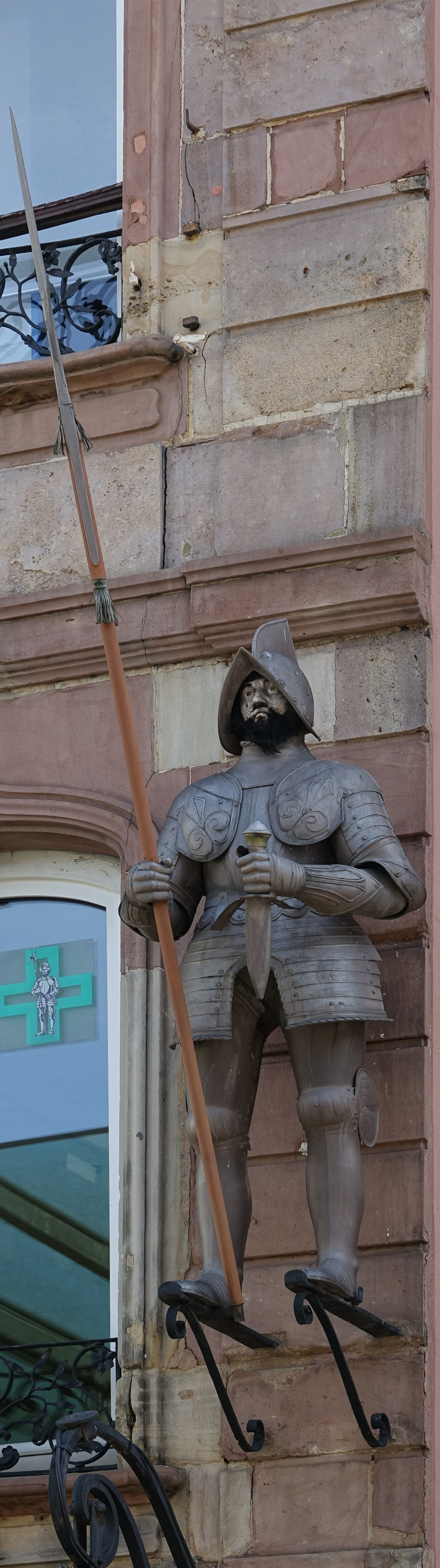 Statue on Place de l'Homme-de-Fer in Strasbourg (Bas-Rhin, France).